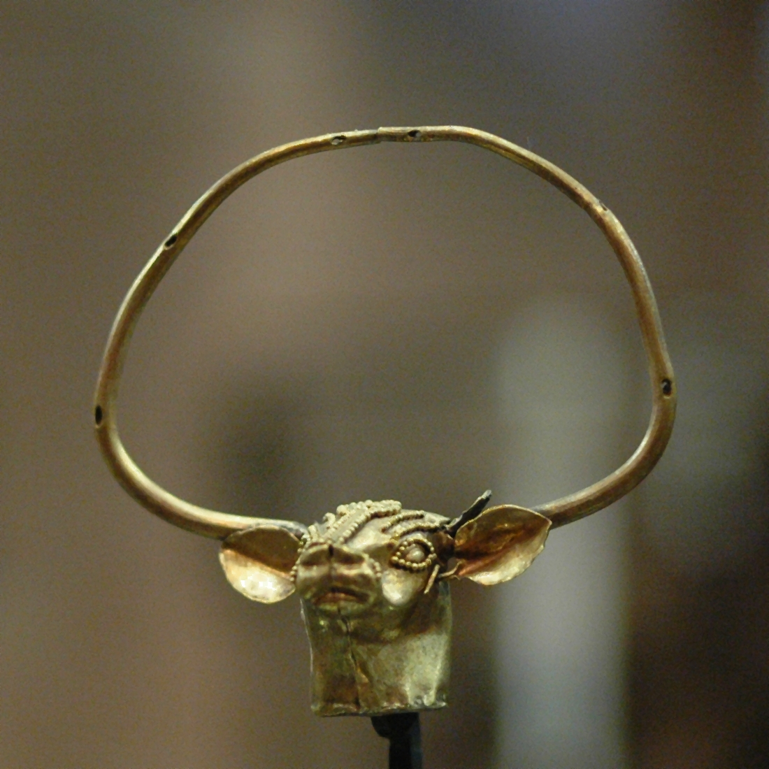 Bull head, originally affixed to a body (now lost) to represent a laying bull. Gold, 16th century BC, found in Amyklai (Laconia), probably made in Crete.